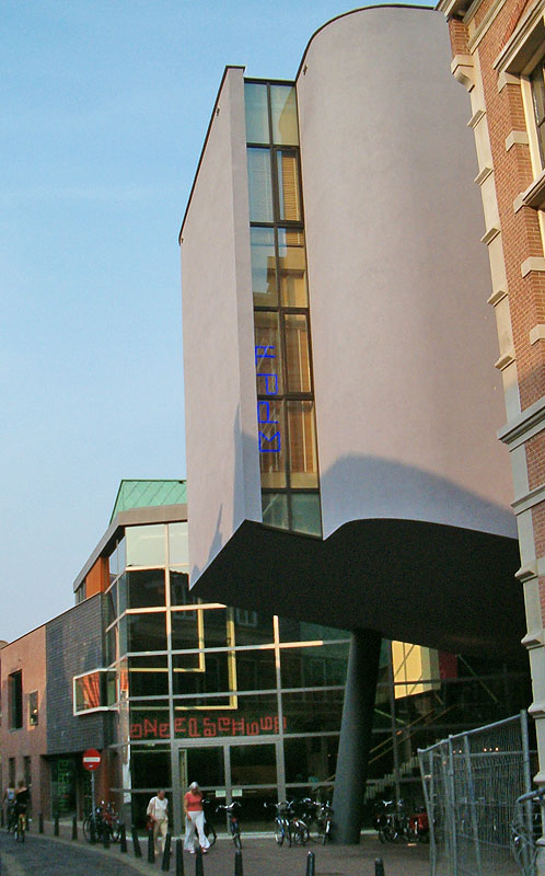 New building of the Toneelschuur, theater in Haarlem. . Picture taken by Guus Bosman on Sunday September 5th 2004.